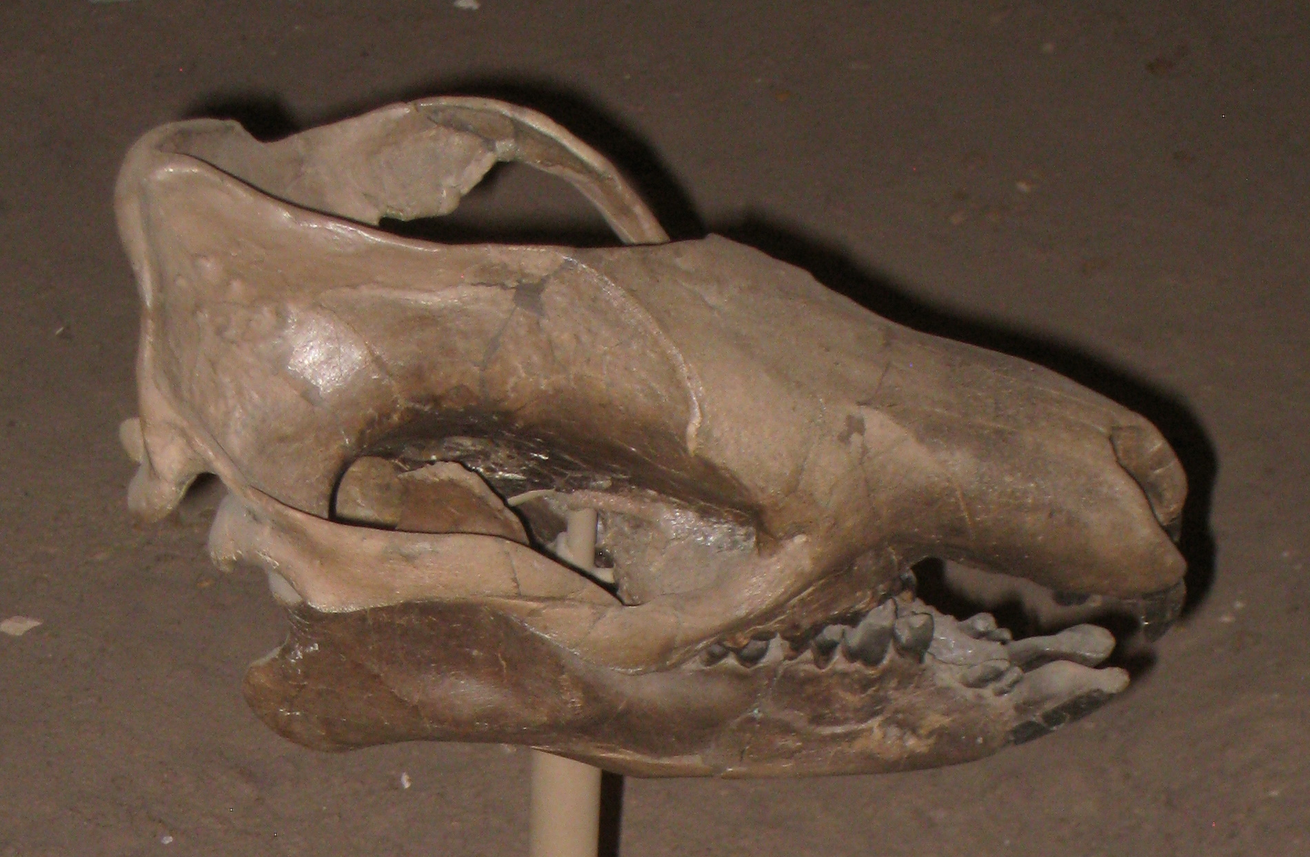 Trogosus hyracoides fossil specimen in the National Museum of Natural History, Smithsonian Institution, Washington, DC, USA.